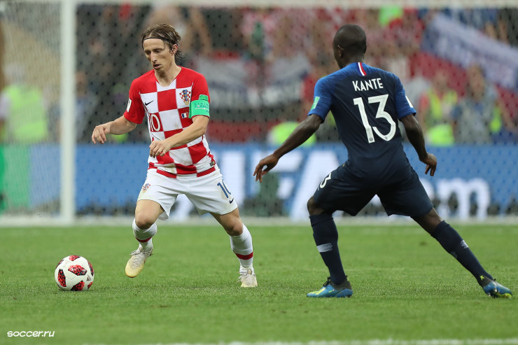 Kanté vs Modrić Russia 2018